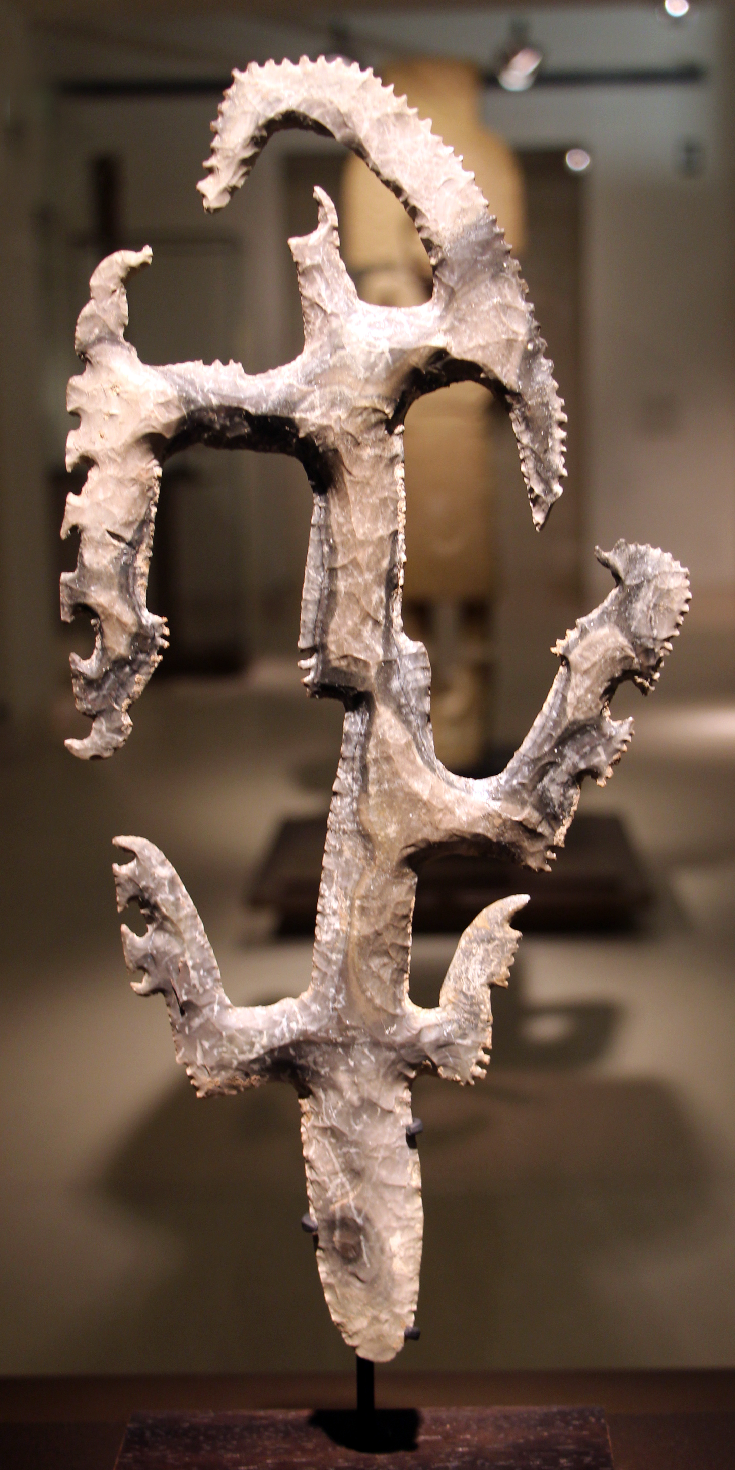 Arts of Americas in the Louvre - Room 7